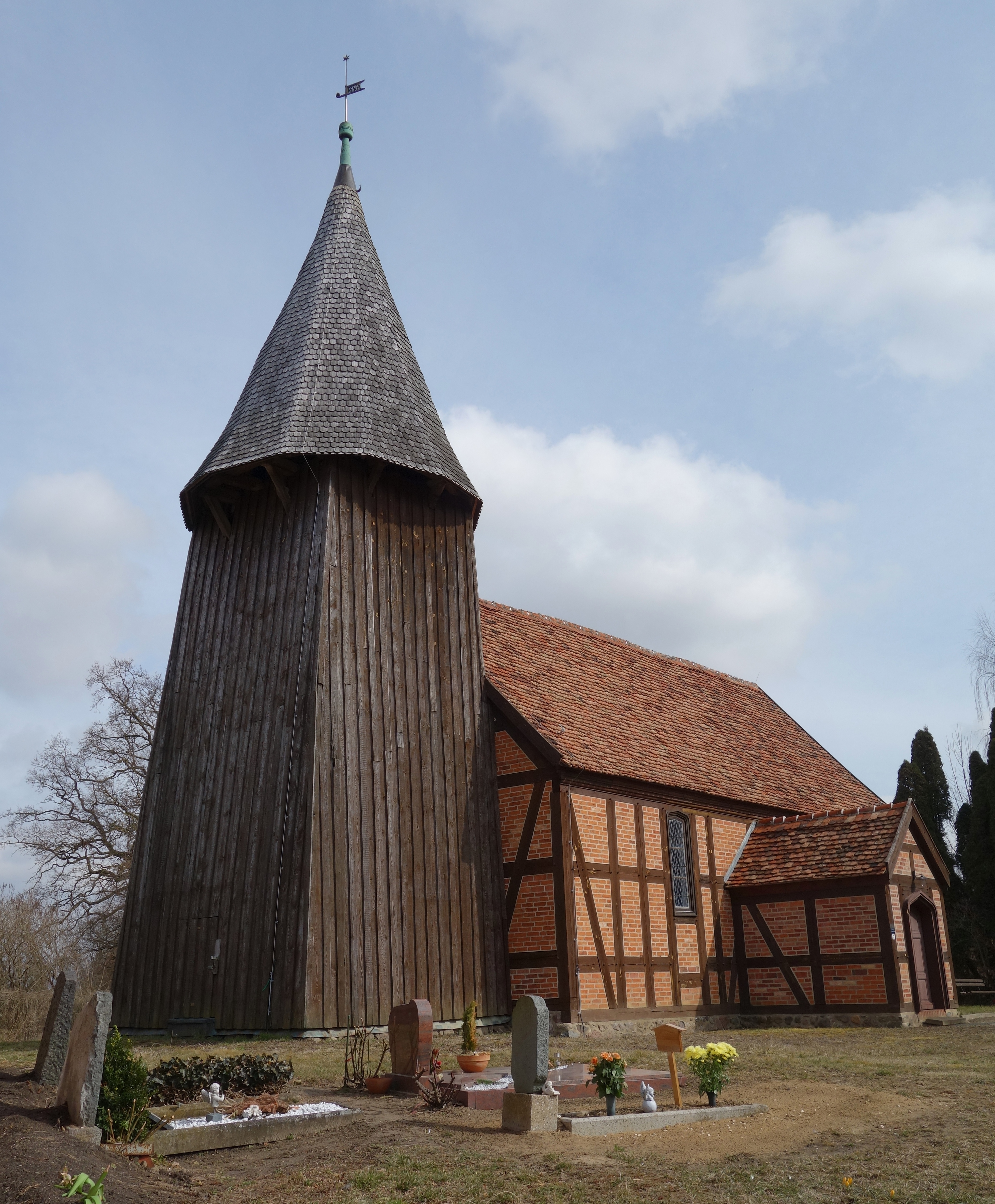 South-western view of church in Ellingen, Prenzlau municipality, Uckermark district, Brandenburg state, Germany